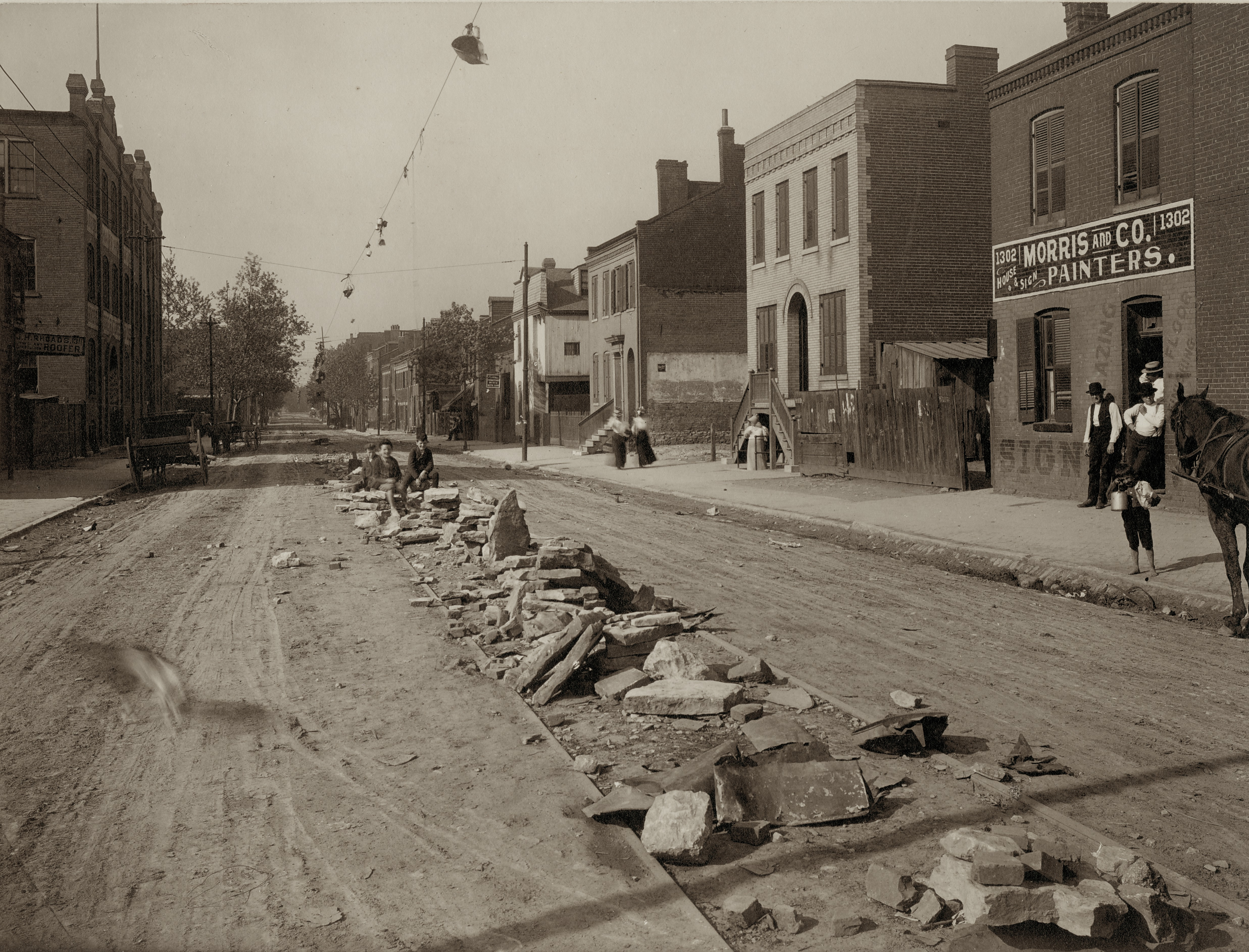 Title: Children pose on rocks and stones piled on tracks during streetcar strike of 1900, looking north on Fifteenth from O'Fallon Street.